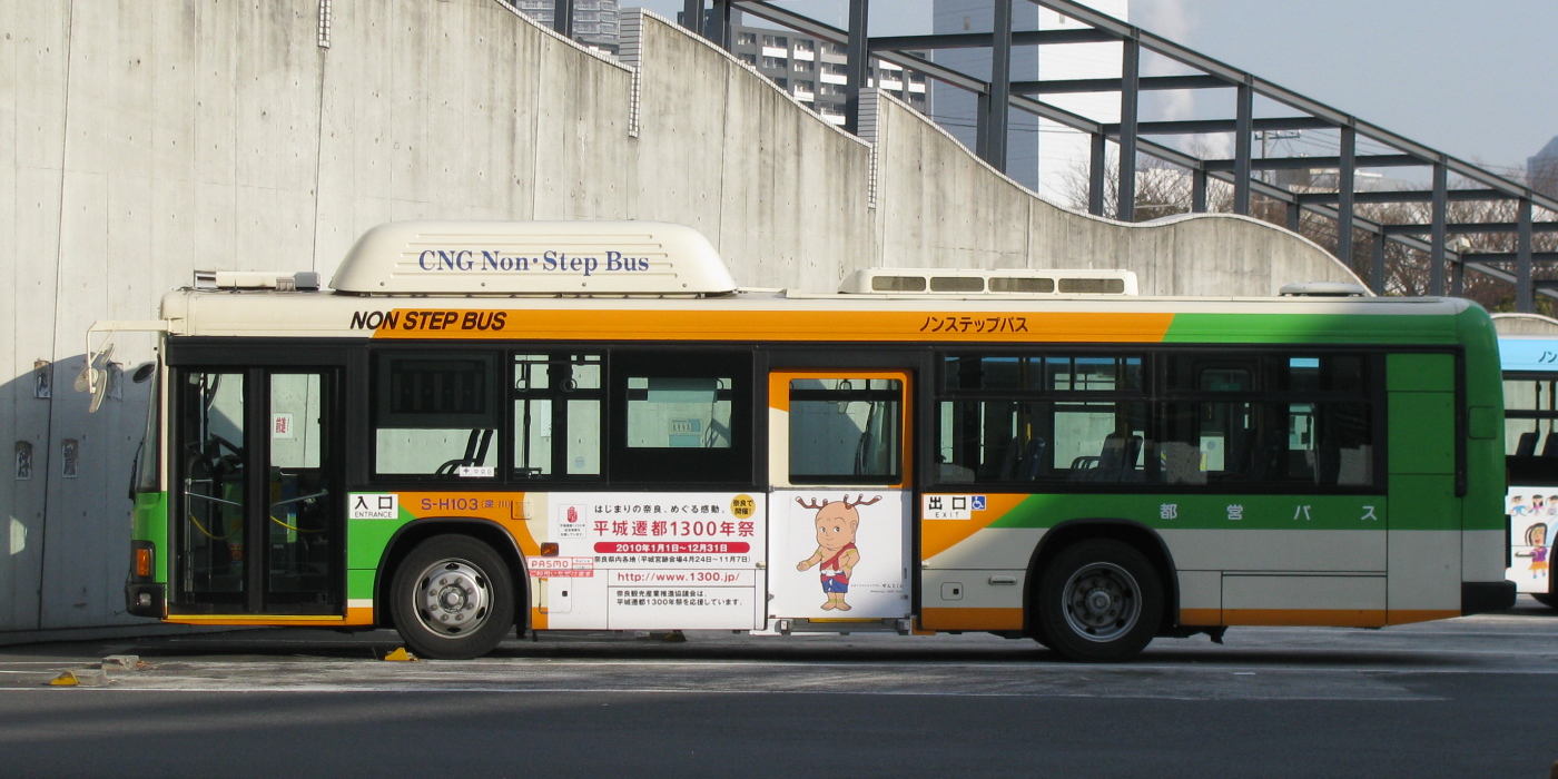 A Toei Bus with advertisement of the Celebrating the 1300th anniversary of Nara Heijo-kyo Capital in 2010.